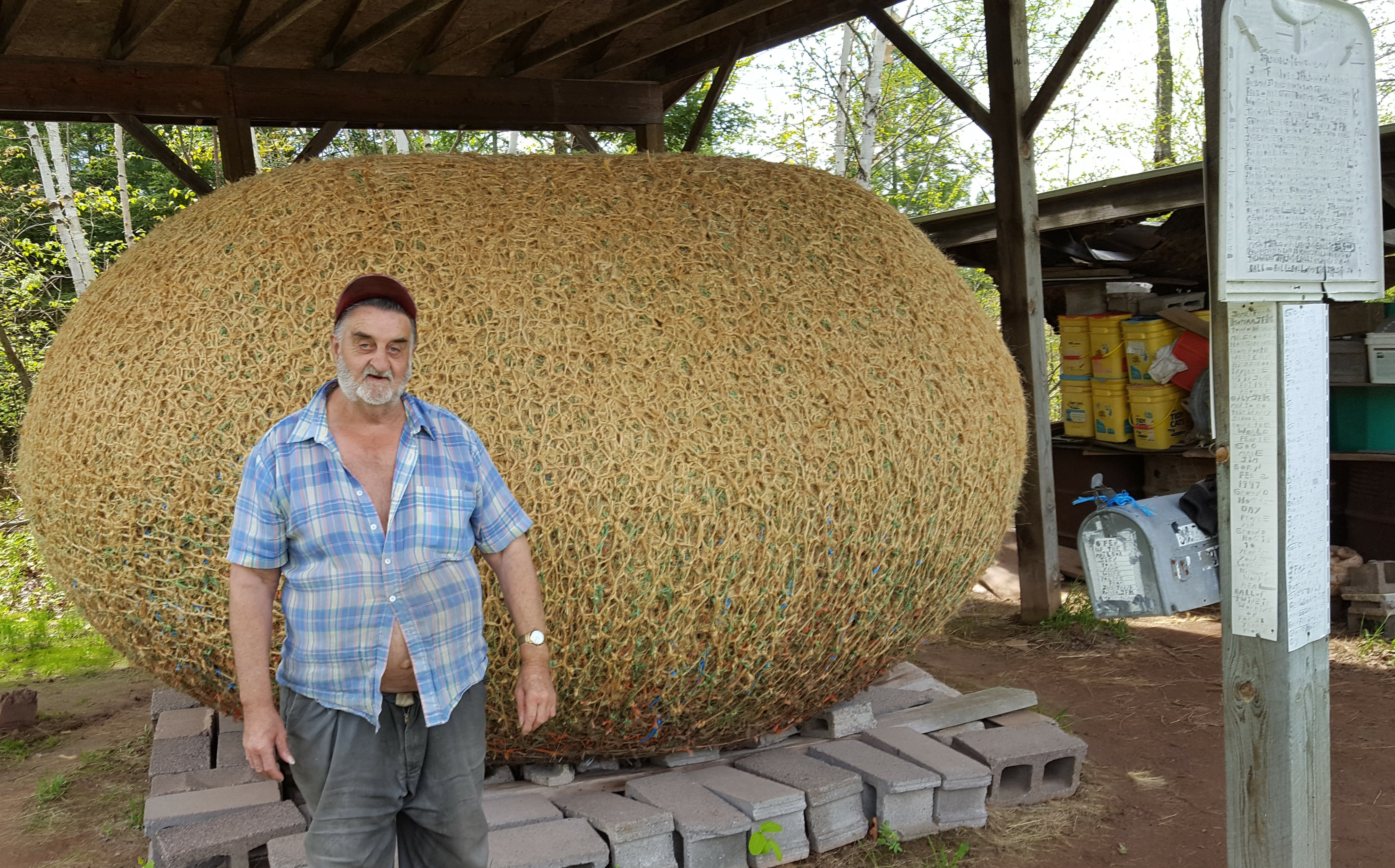 Photo of James Frank Kotera standing in front of his creation, the heaviest ball of twine. The ball was started in 1979 and is located in Lake Nebagamon, Wisconsin.